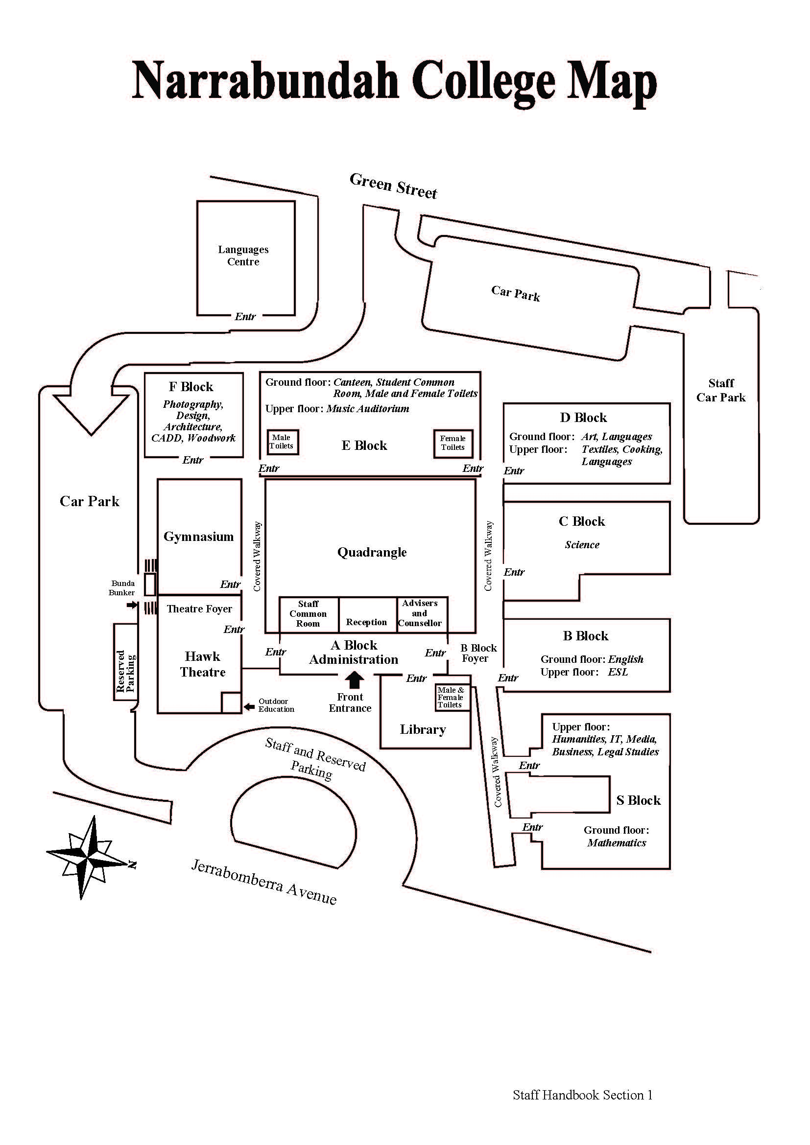 Building map for Narrabundah College, ACT, Australia from the Staff Handbook, Section 1.